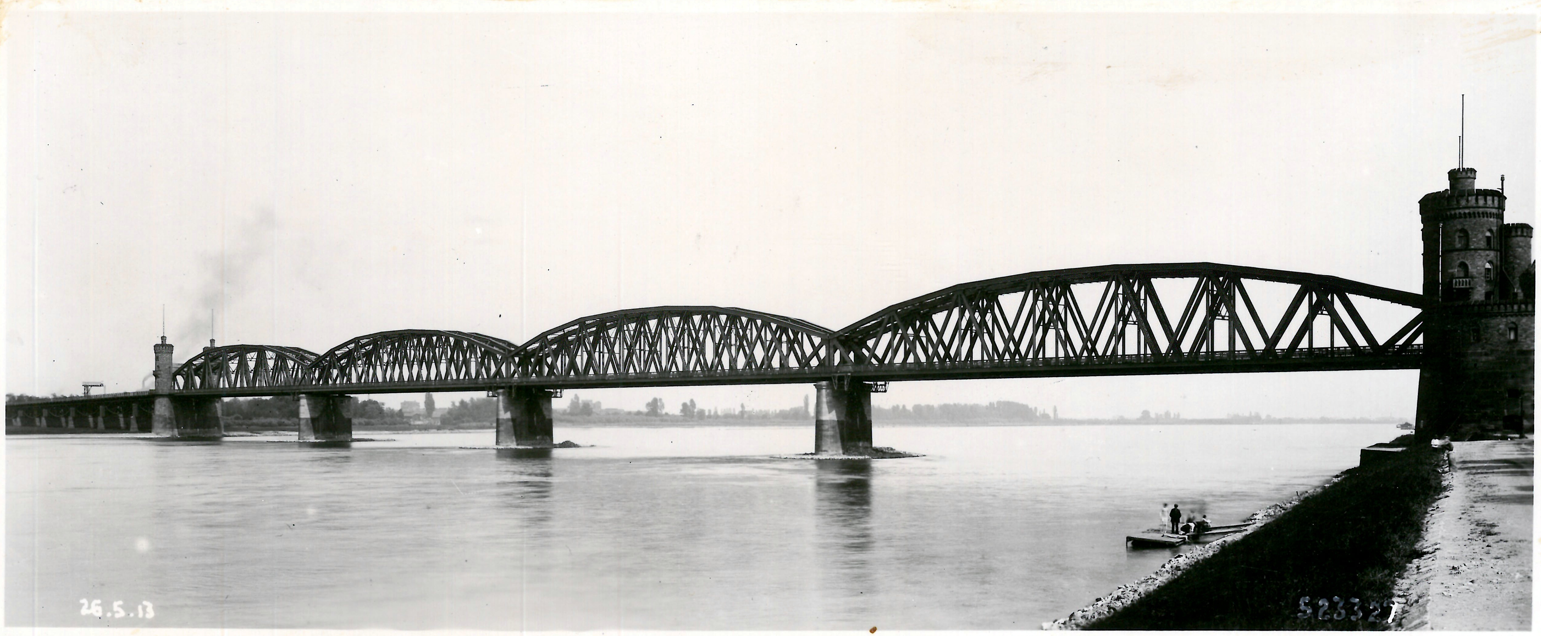 Old "Südbrücke" (South Bridge) between Mainz and Gustavsburg (today: Ginsheim-Gustavsburg)